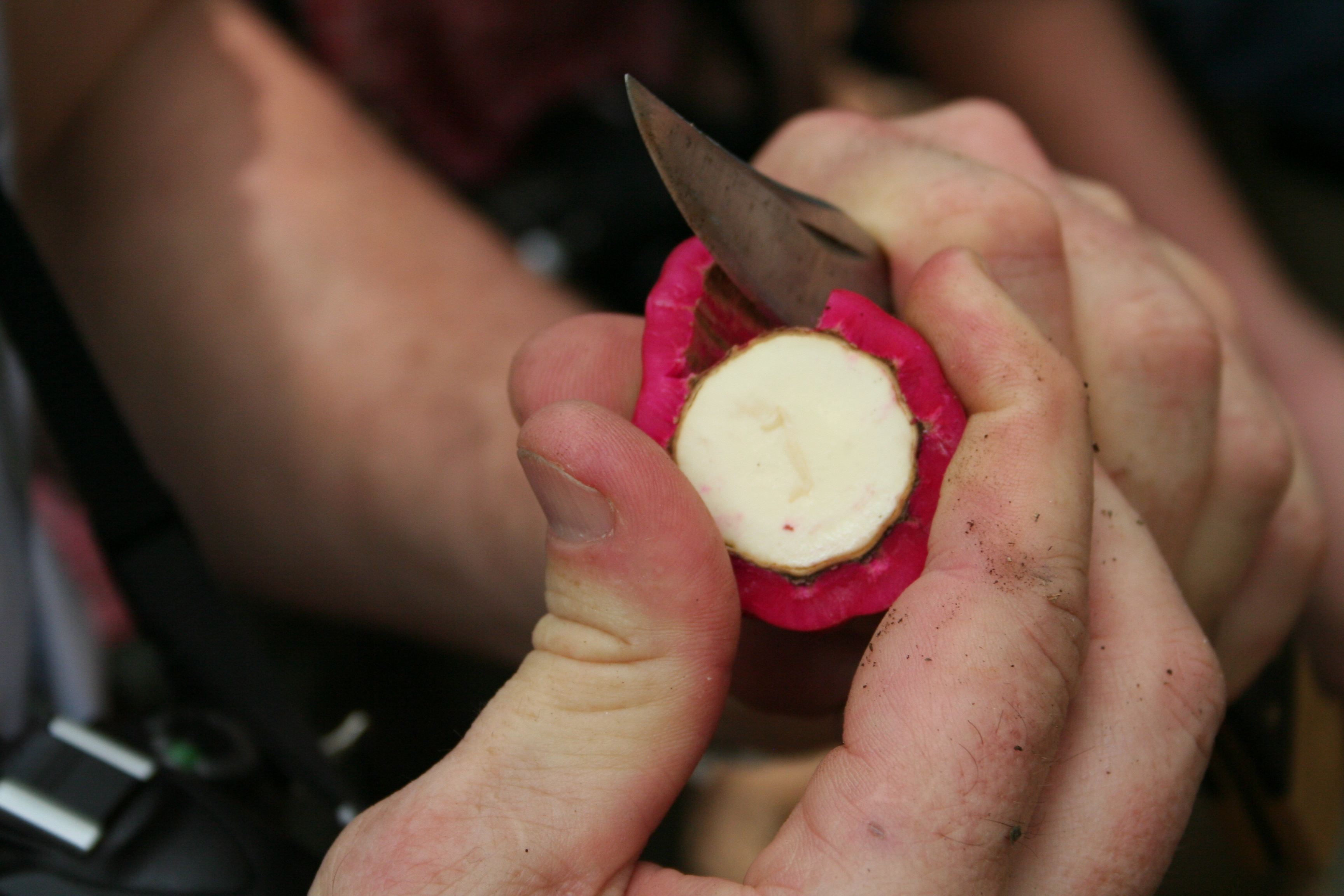 fruit of Lavigeria macrocarpa (bush carrot), Bota Hill, Limbe Bot. G., Cameroon